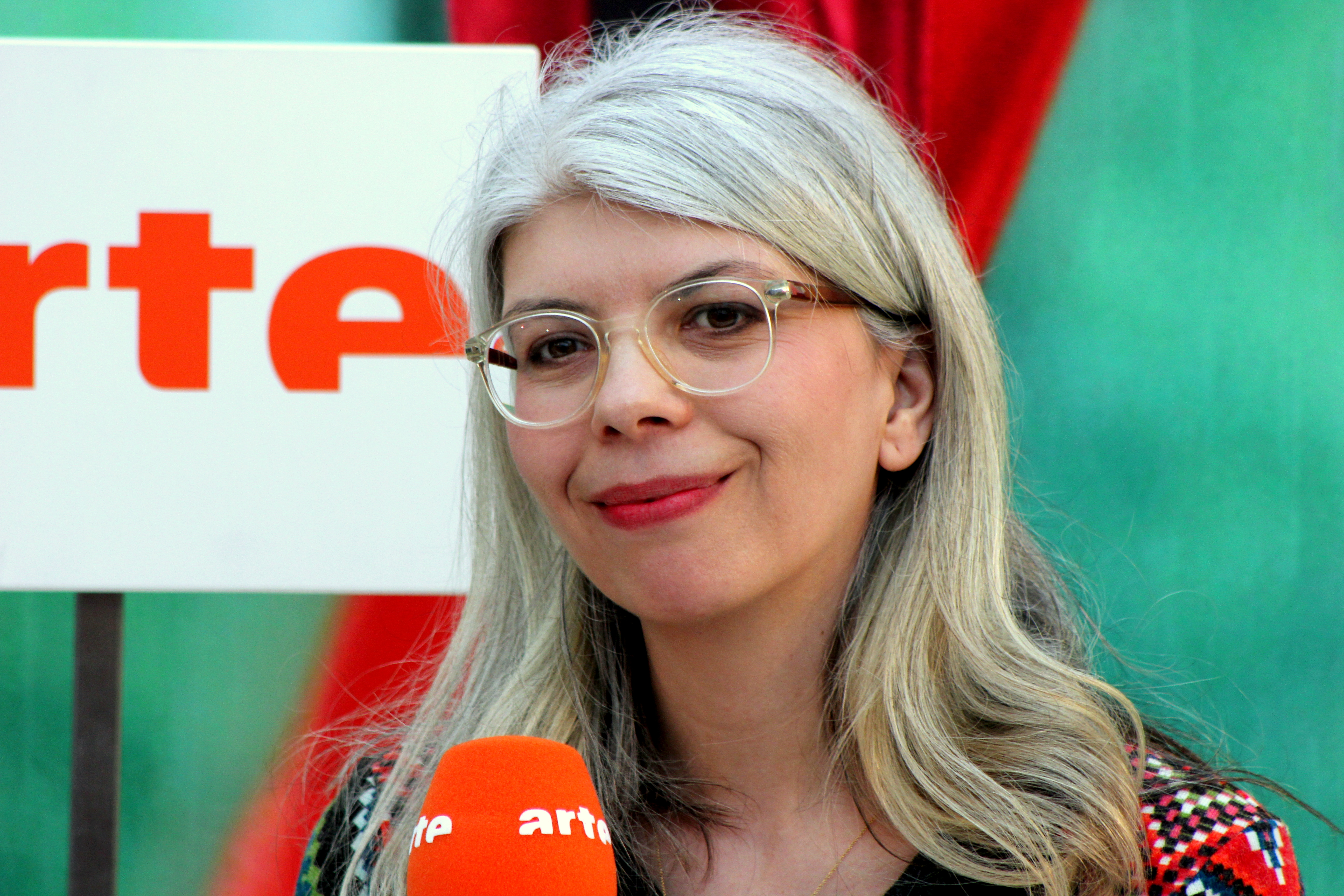 Marica Bodrožić, Leipzig Book Fair 2015